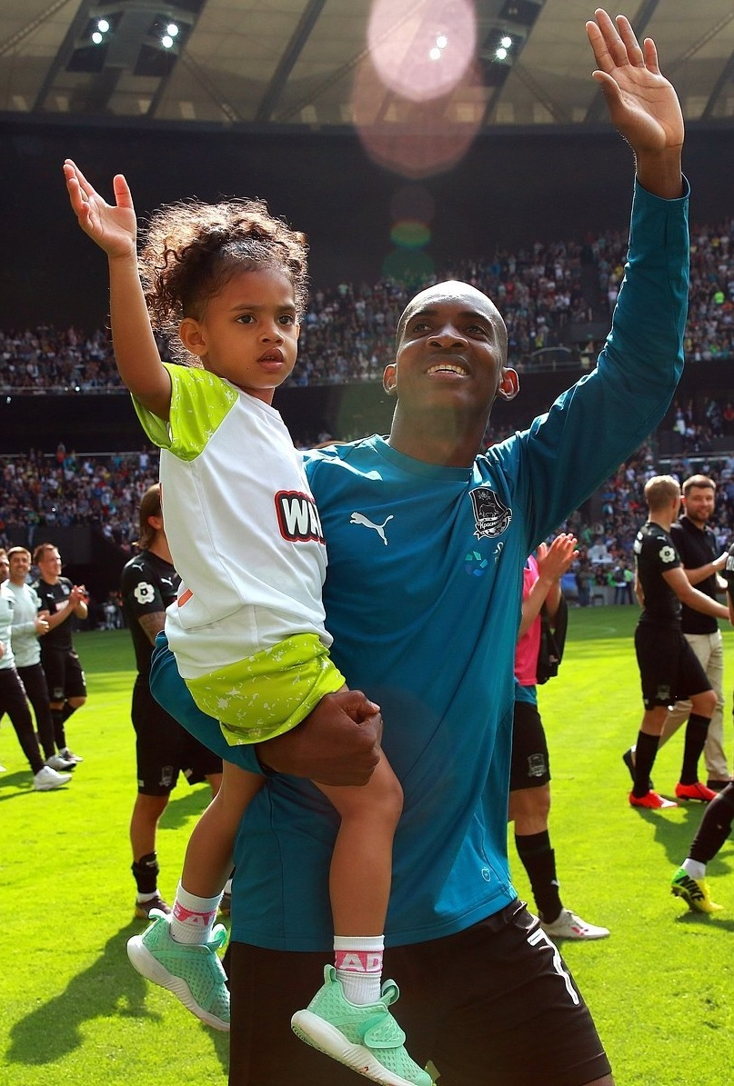 Charles Kaboré with his daughter after his last game for FC Krasnodar (against FC Rubin Kazan).